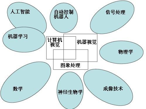 overview of computer vision and related fields in Chinese